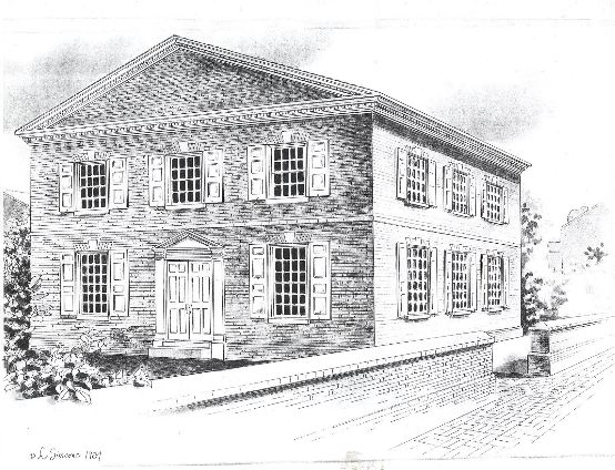 Drawing of the first building of Mikveh Israel at 3rd and Cherry Streets and built in 1782.